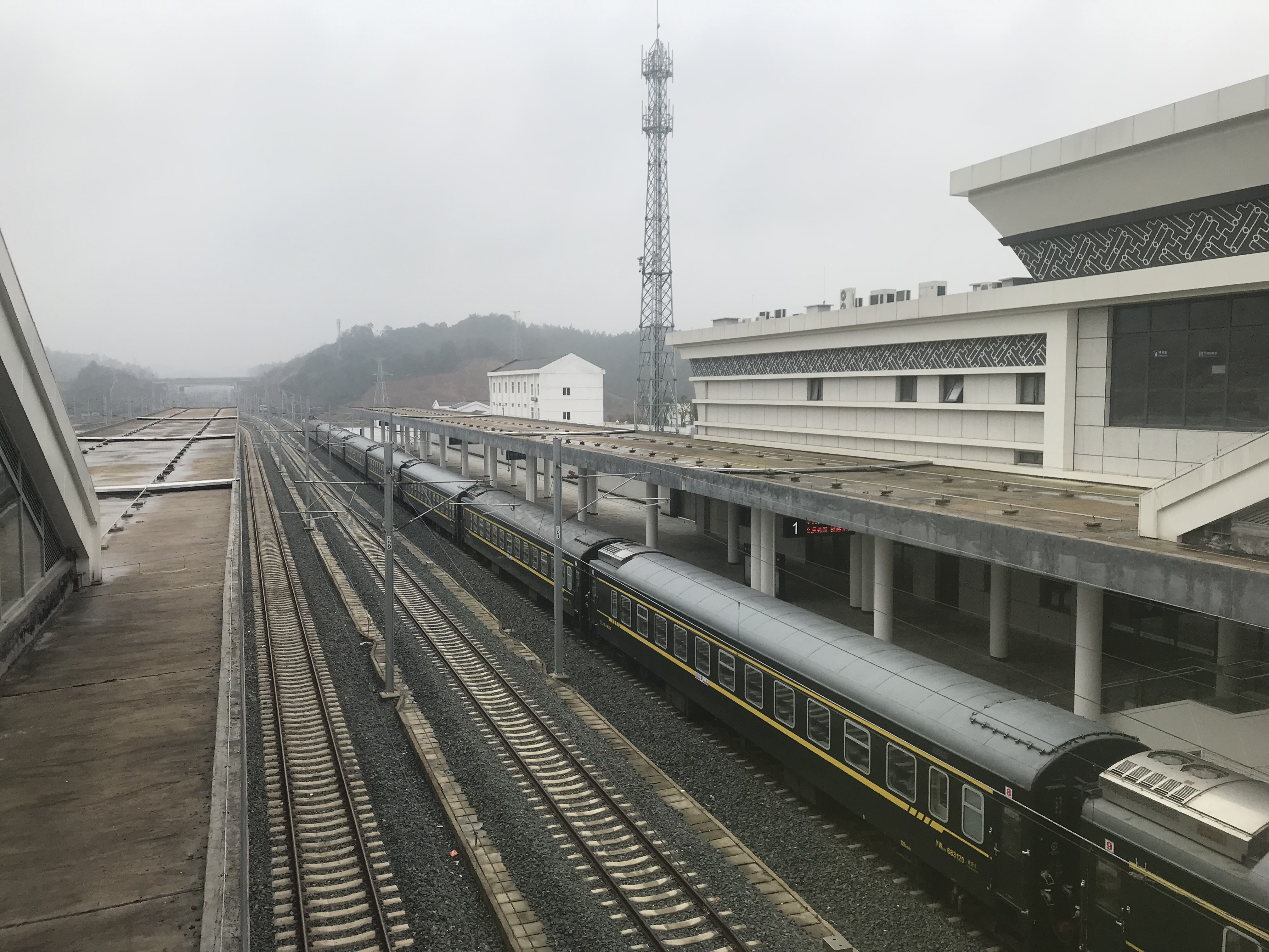 K88 from Guangzhou to Jingdezhenbei